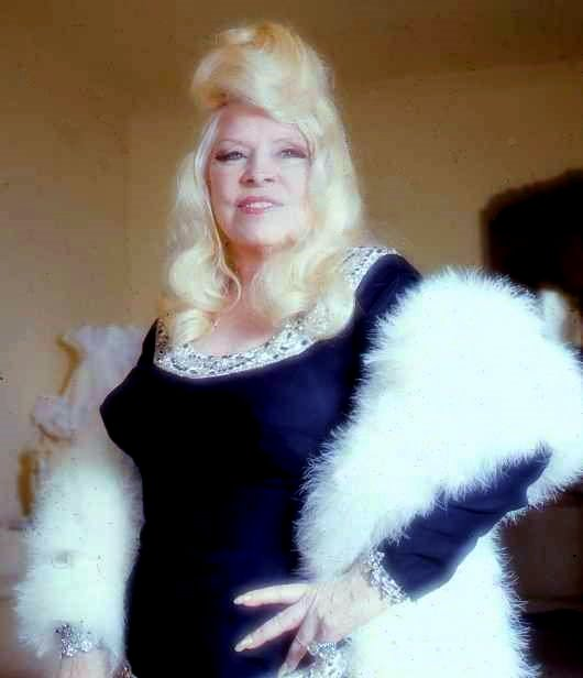 Mae West at home